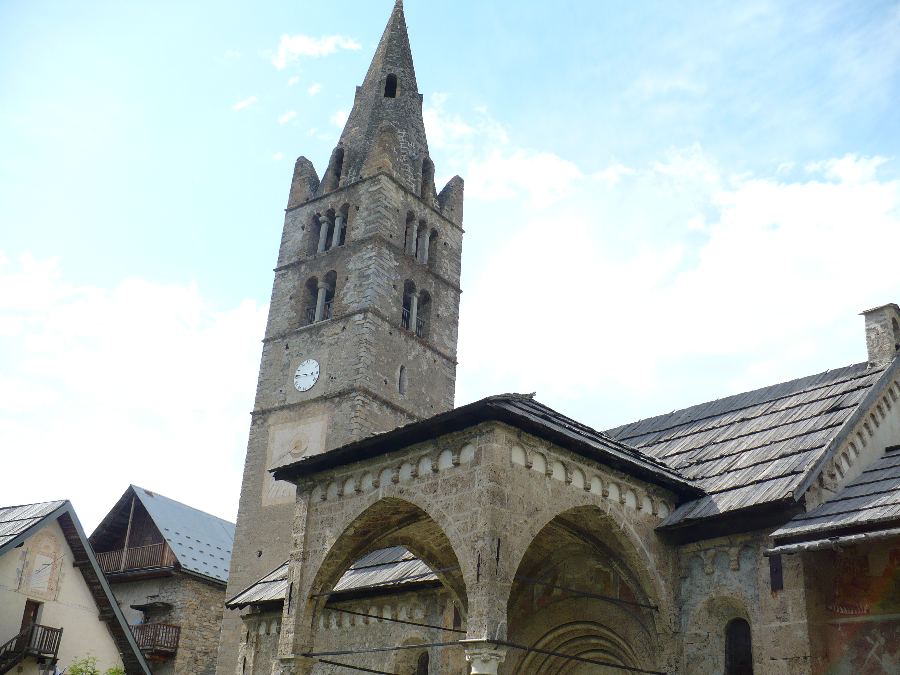 Les Vigneaux - Hautes-Alpes - France